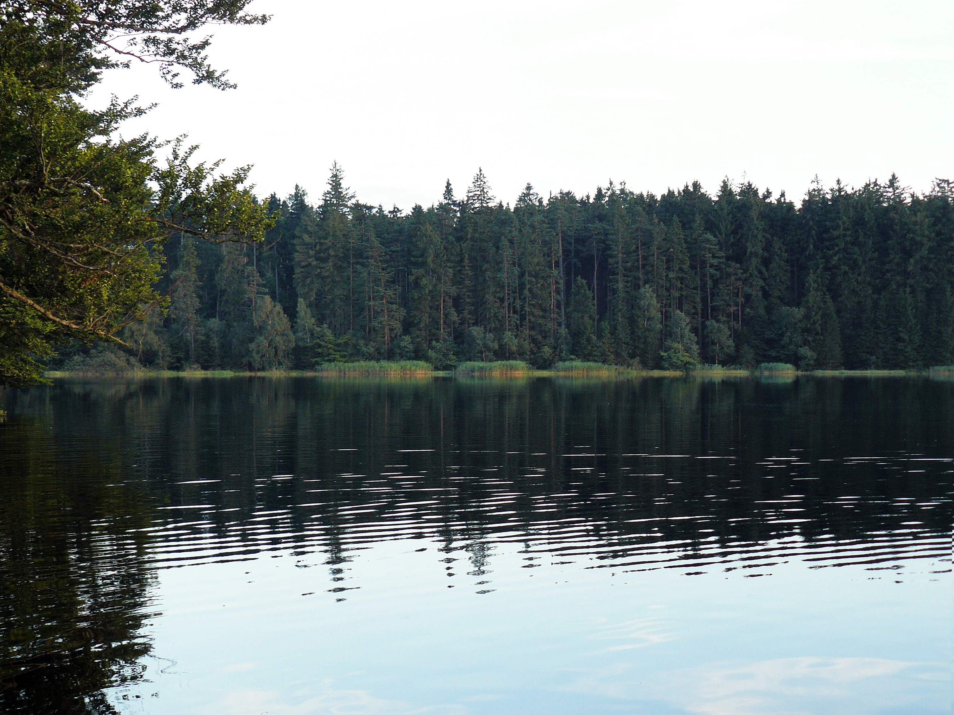 Nature reserve Velký Pařezitý rybník, Jihlava District, Czech Republic.